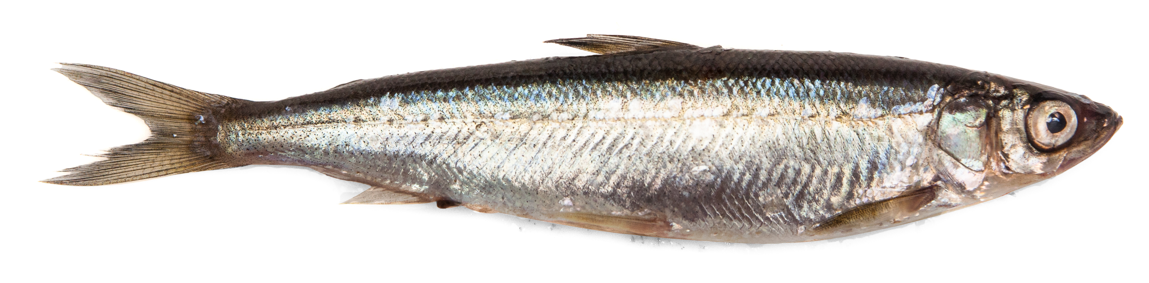 Coregonus albula, vendace, European cisco